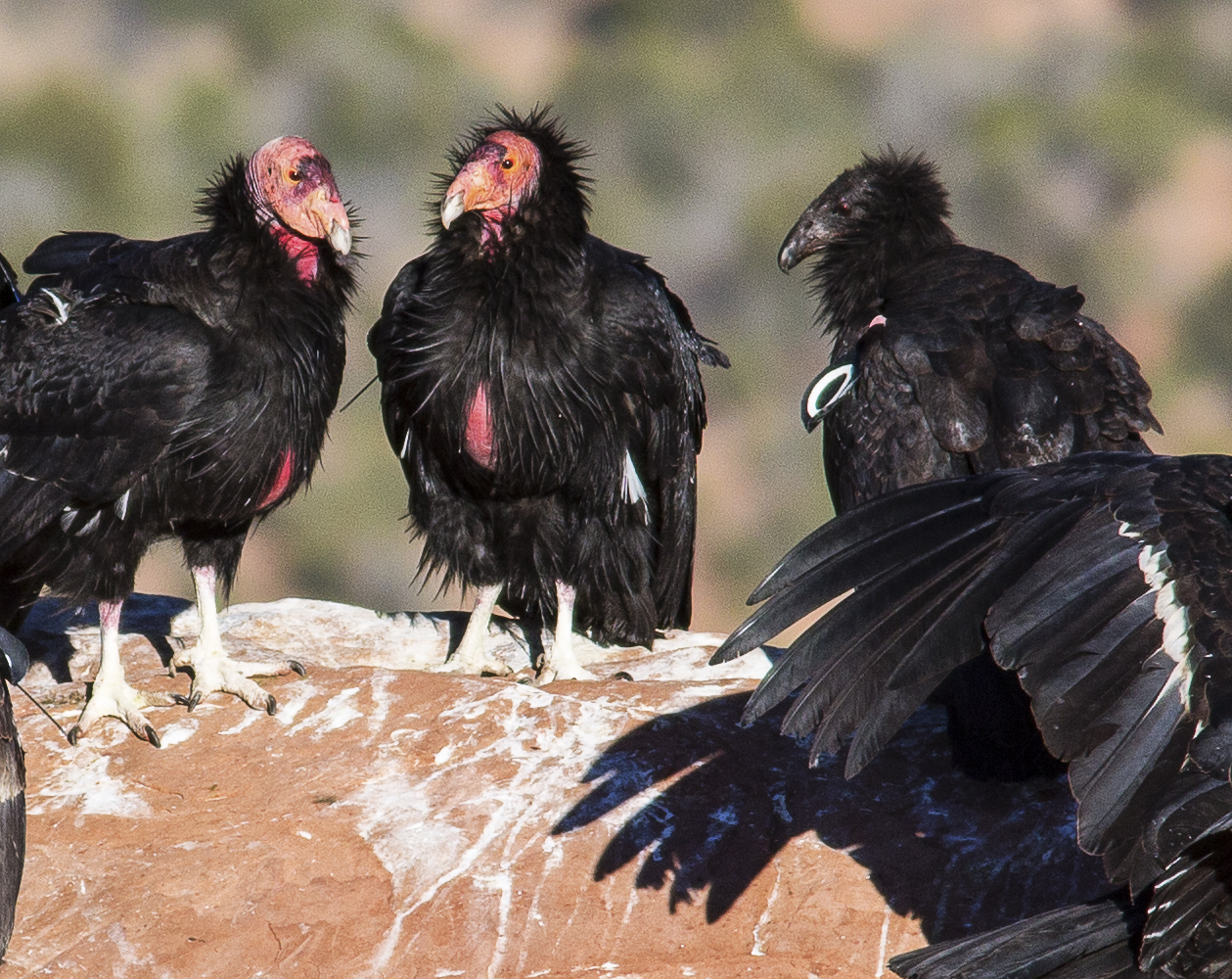 Seventy-five of the world’s 439 condors live throughout northern Arizona and southern Utah, and within the Vermilion Cliffs National Monument managed by the BLM's National Conservation Lands. Photo Credit: Bob Wick, BLM